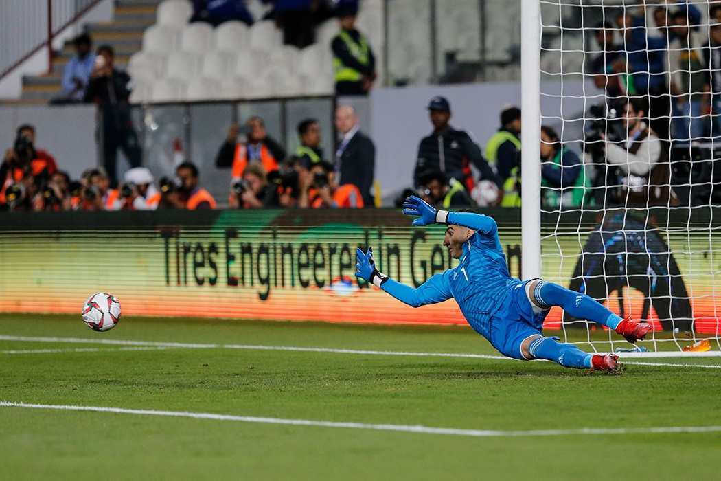 Iran-Oman Round of 16, 2019 AFC Asian Cup